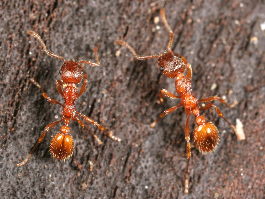 Two Myrmica rubra workers from Cambridge, Massachusetts